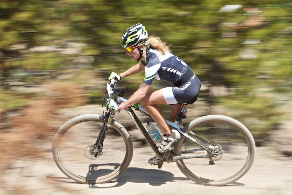 Willow Koerber screams through the singletrack on her Subaru Trek 29er.